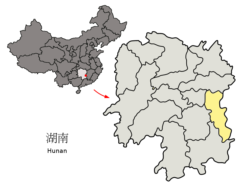 Location of Zhuzhou Prefecture (yellow) within Hunan Province of China Map drawn in december 2007 using various sources, mainly : Hunan Province administrative regions GIS data: 1:1M, County level, 1990 Hunan Counties map from